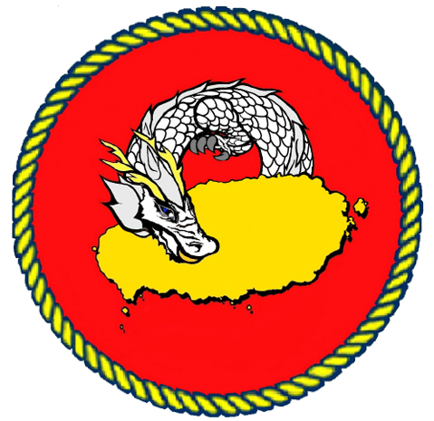 Republic of Korea Marine Corps White Dragon Unit(Jeju Unit, 9th Marine Brigade) Insignia